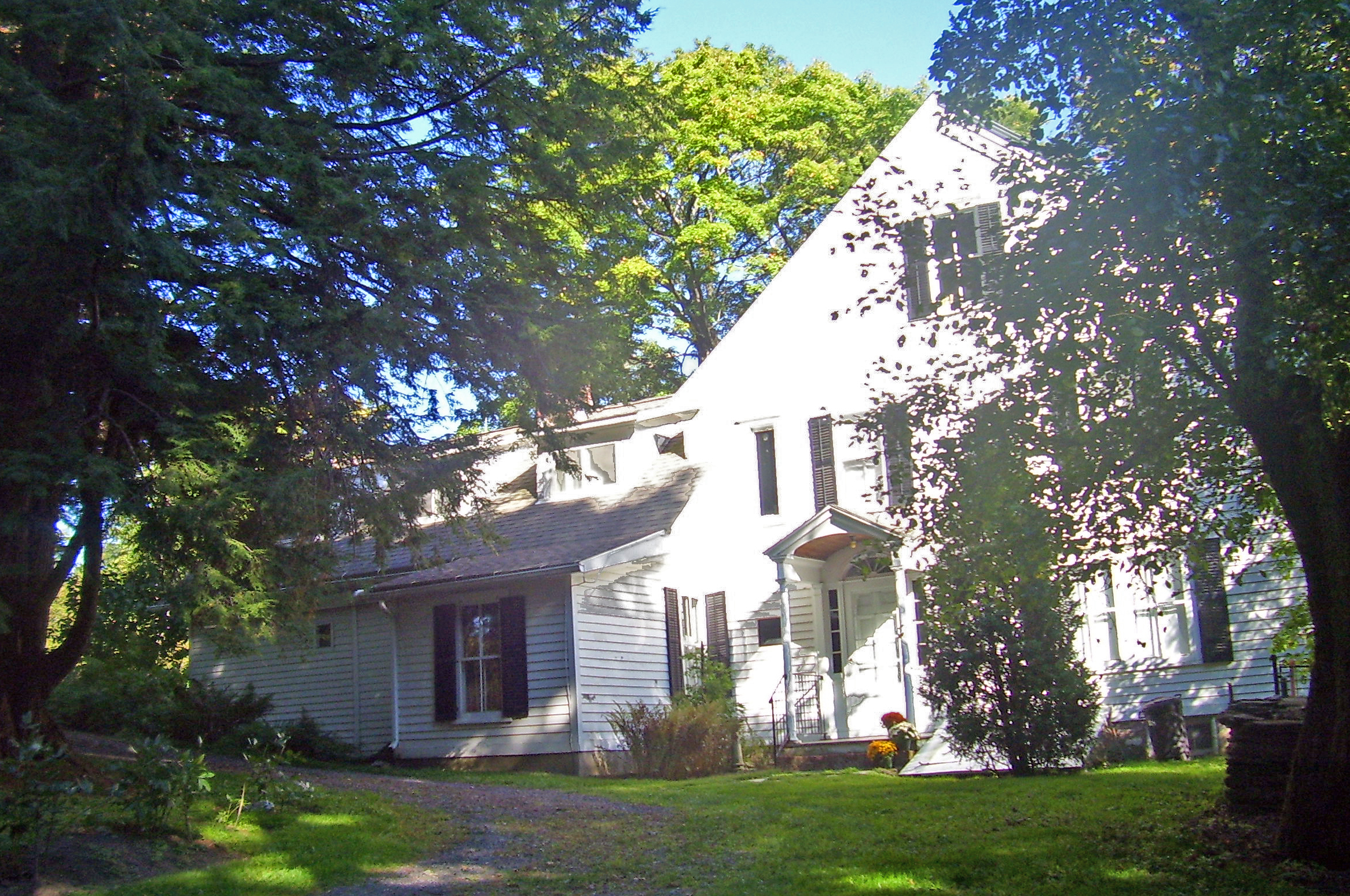 Main house at Steepletop Farm, home of Edna St. Vincent Millay